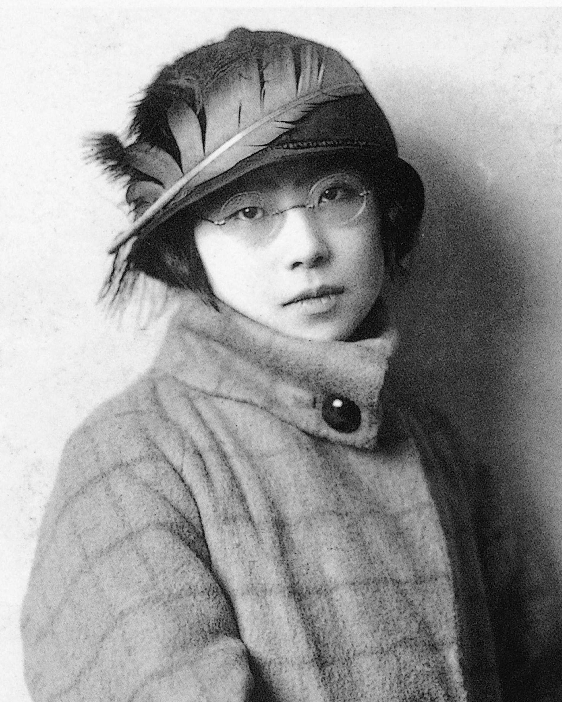 Kitamura Kaneko, a former journalist of the Osaka Asahi Shimbun, and also known as a feminism activist.